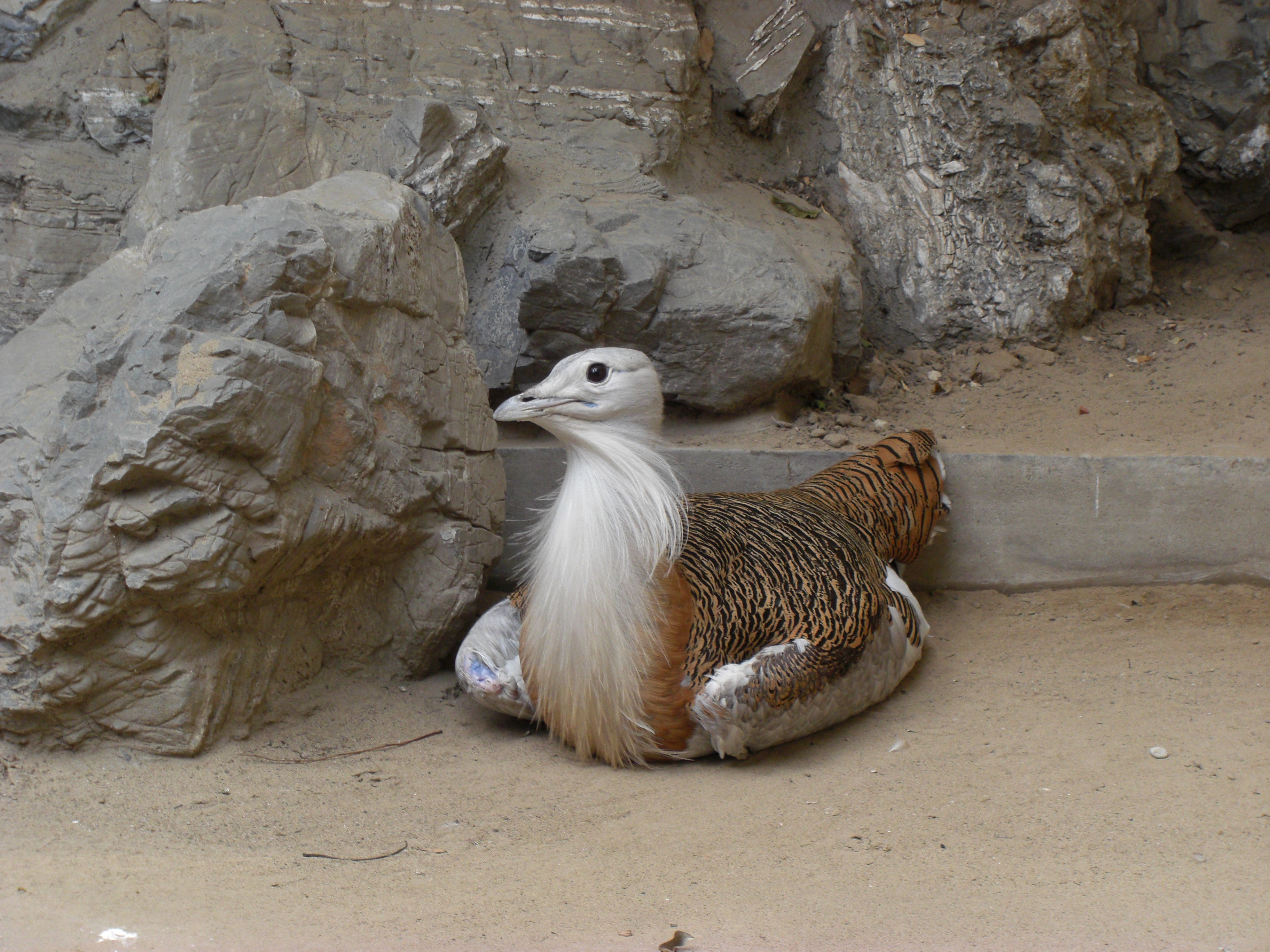 Male great bustard at the Beijing Zoo.